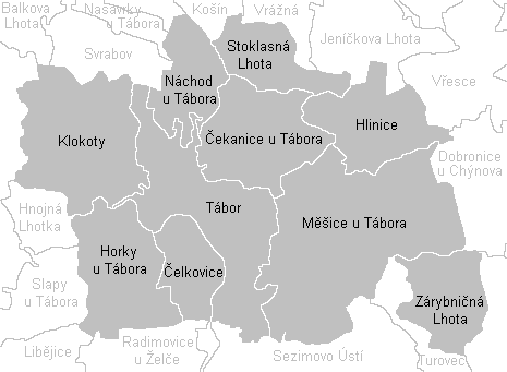 Cadastral map of Tábor